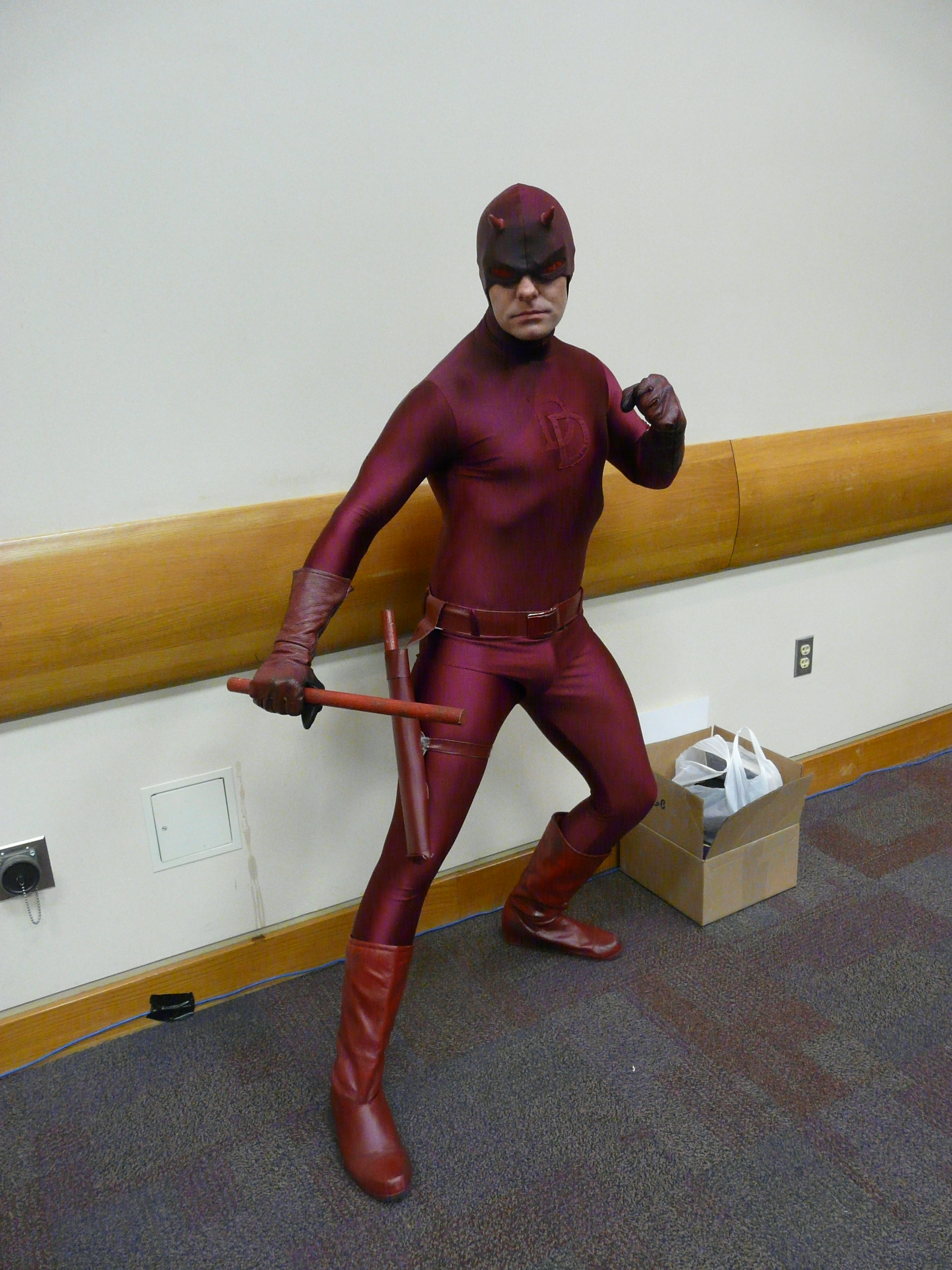 Picture of Gen Con Indy 2008 in Indianapolis, Indiana, USA.